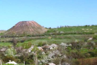 Uspenka, Luhansk Oblast